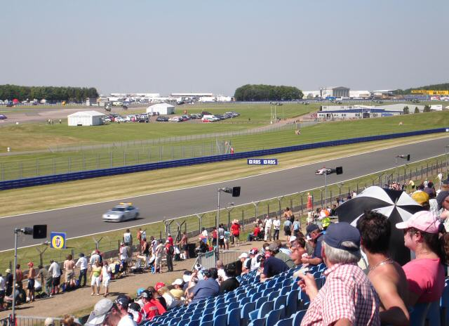 The safety car leads the field during the 2006 British Grand Prix.